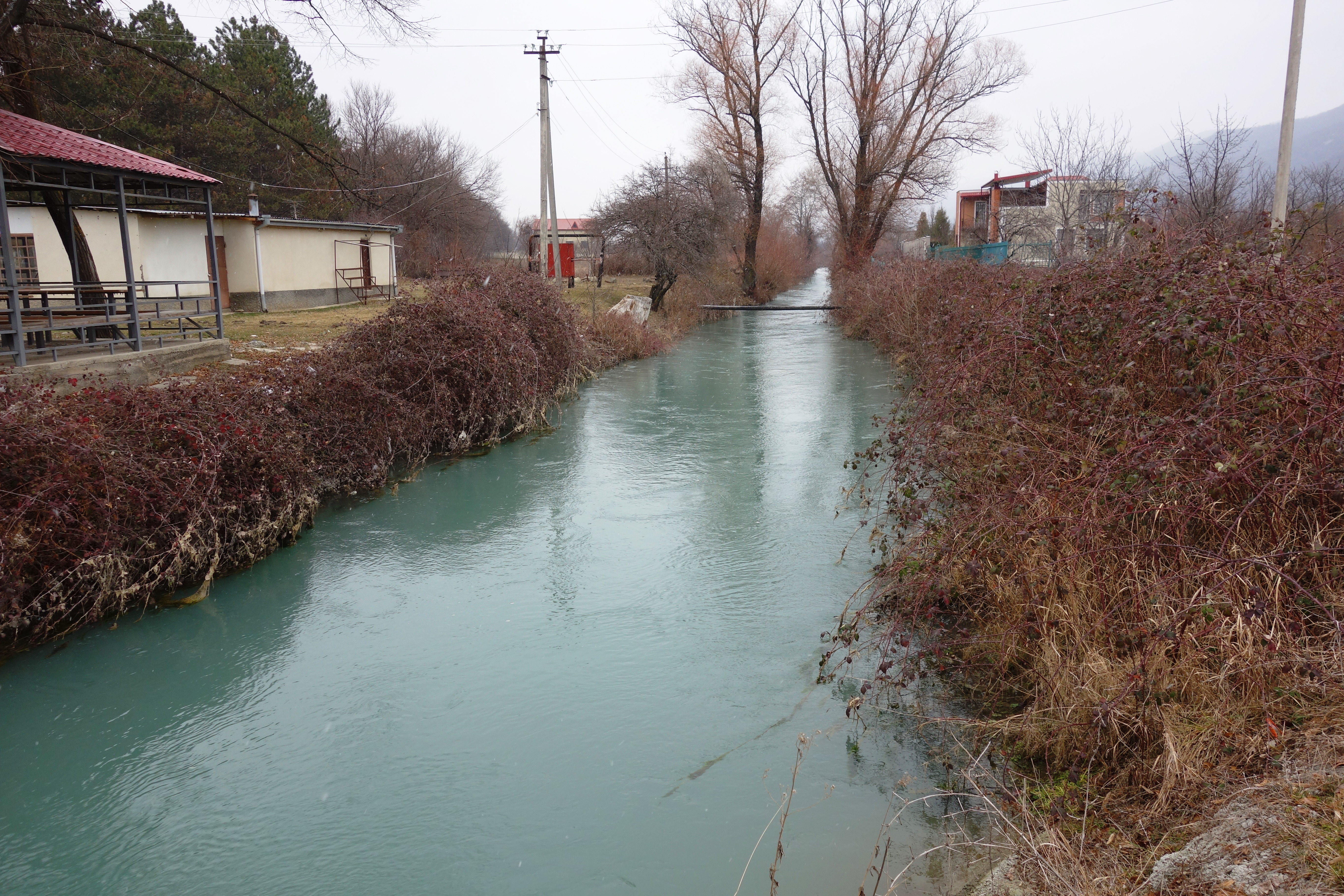 Mukhrani canal in the village Tsitelsopeli, Mtskheta-Mtianeti, Georgia